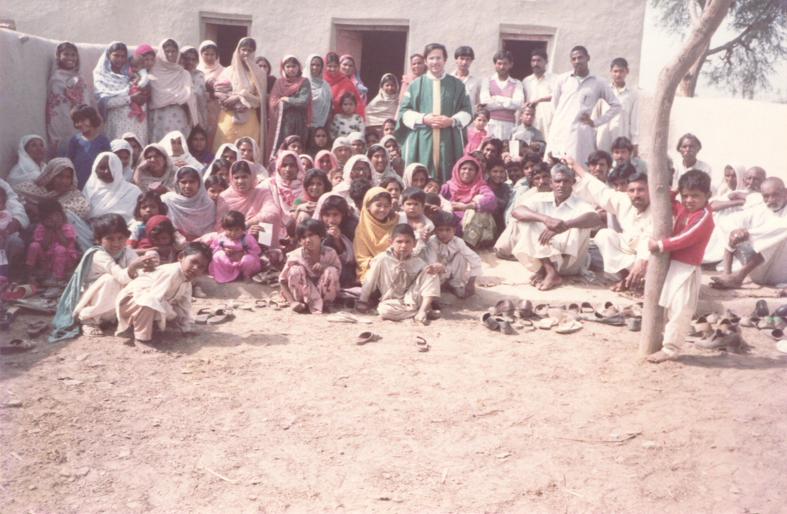 MSSP mission in Pakistan